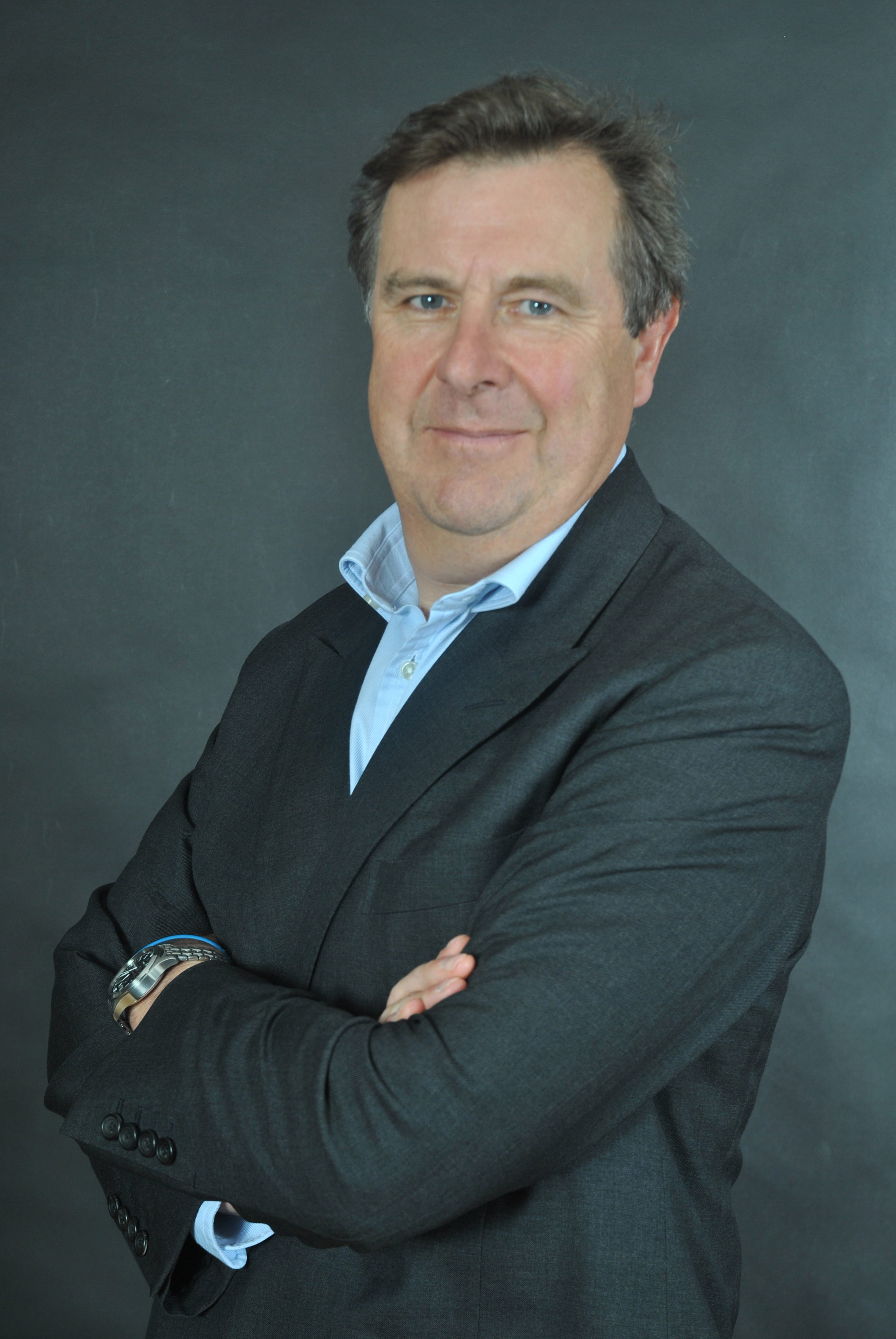 Edward William Fitzalan-Howard taken at photographer's studio London